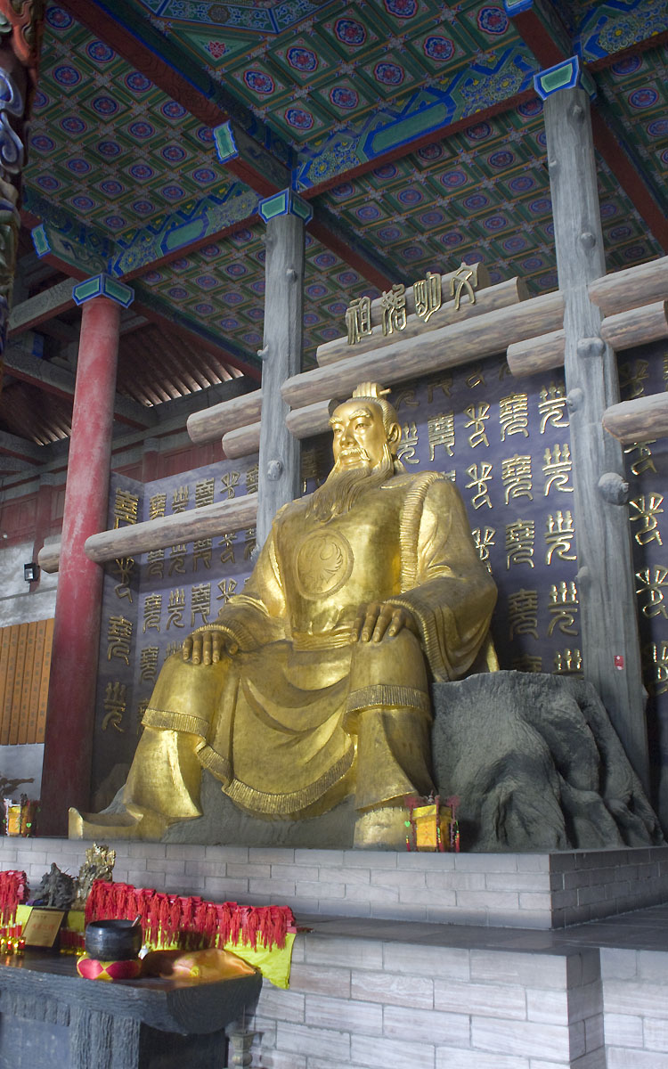 Emperor Yao statue in the Guanyun hall of the Yao temple in Linfen, Shanxi, China.